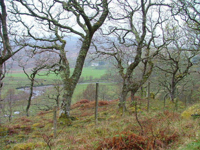 Old Oak Trees Above Glenmore Bay.